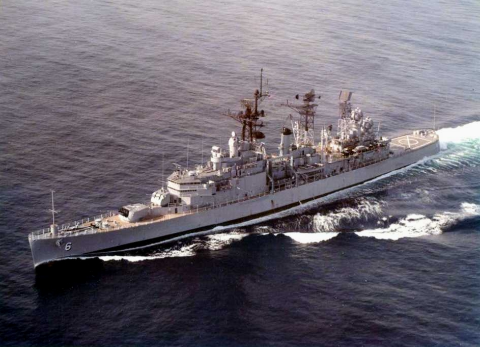 The U.S. Navy guided missile cruiser USS Providence (CLG-6) underway, in 1970. Note her radar complement (front to aft): SPS-10, SPS-37A, SPS-8B, and SPS-52. Providence was probably the last ship equipped with the SPS-8B radar and never received the SPS-30 as a replacement.